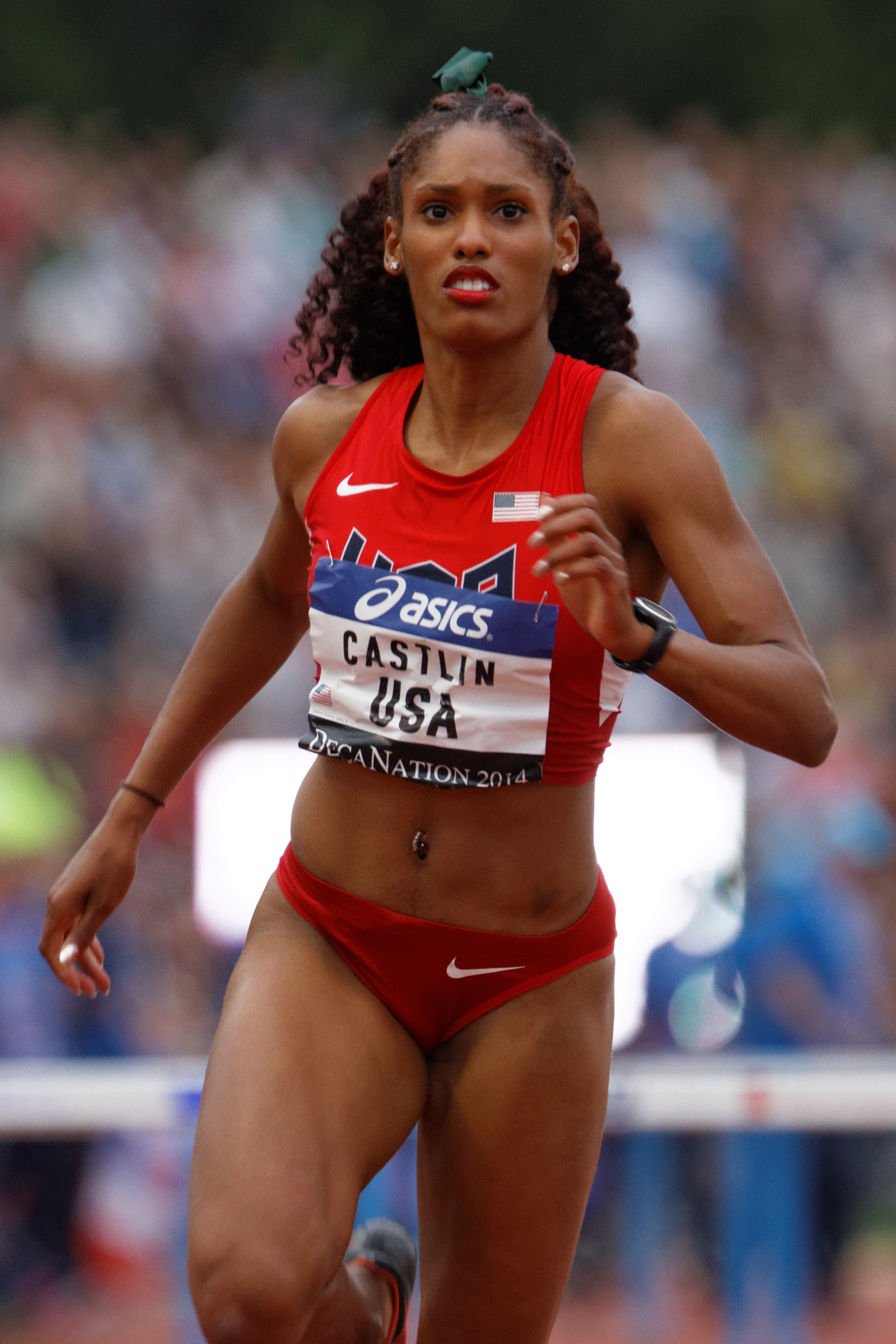 DécaNation 2014. 100m hurdles.